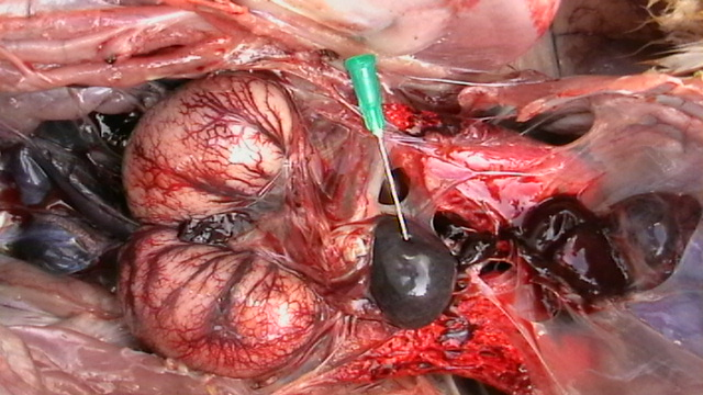 Orchitis and splenomegalia (needle) in rooster 2 (32 weeks) in a broiler breeder flock